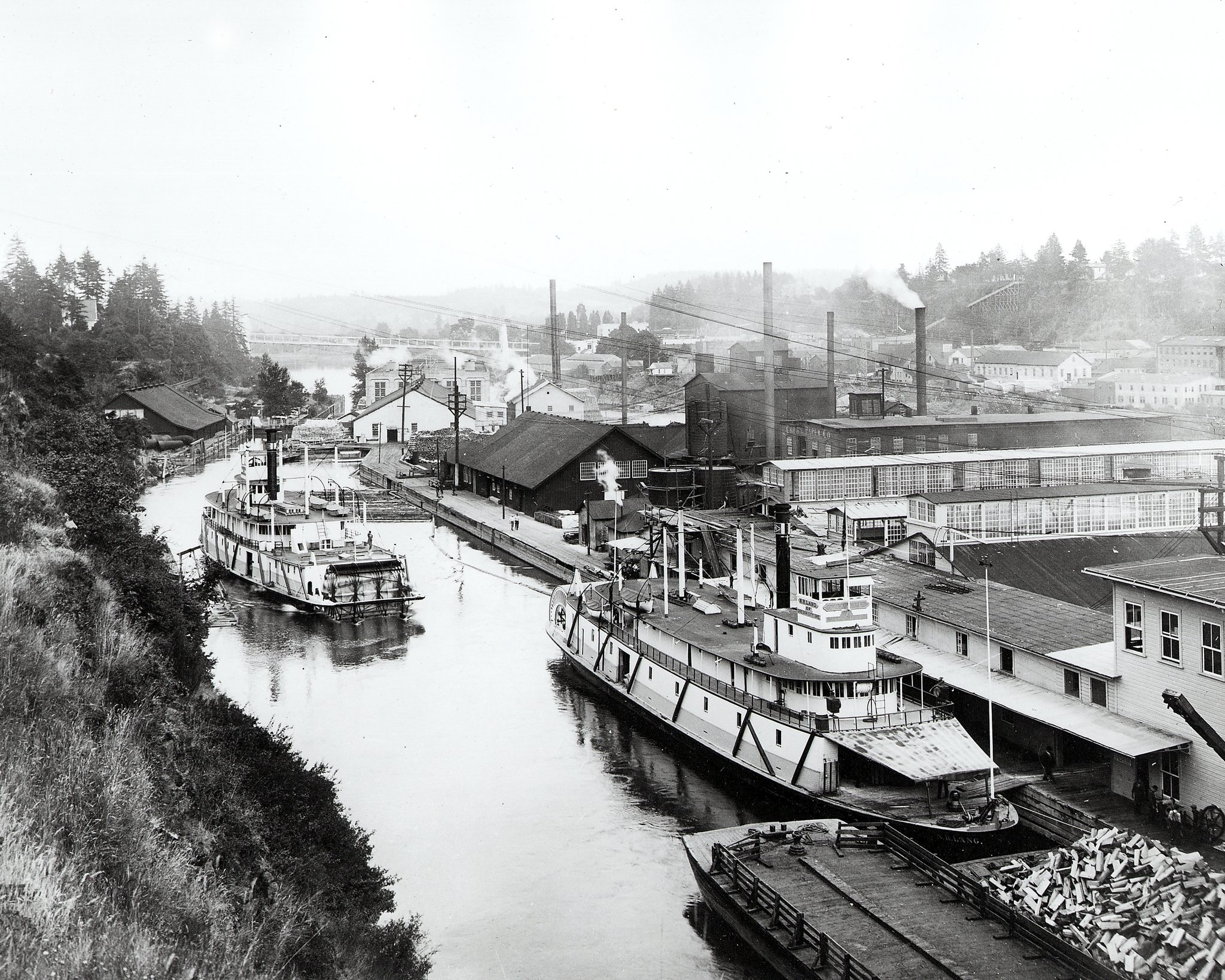 The Willamette Locks in 1888. Steamer N.R. Lang is on the right. Unidentified steamer is on the left.